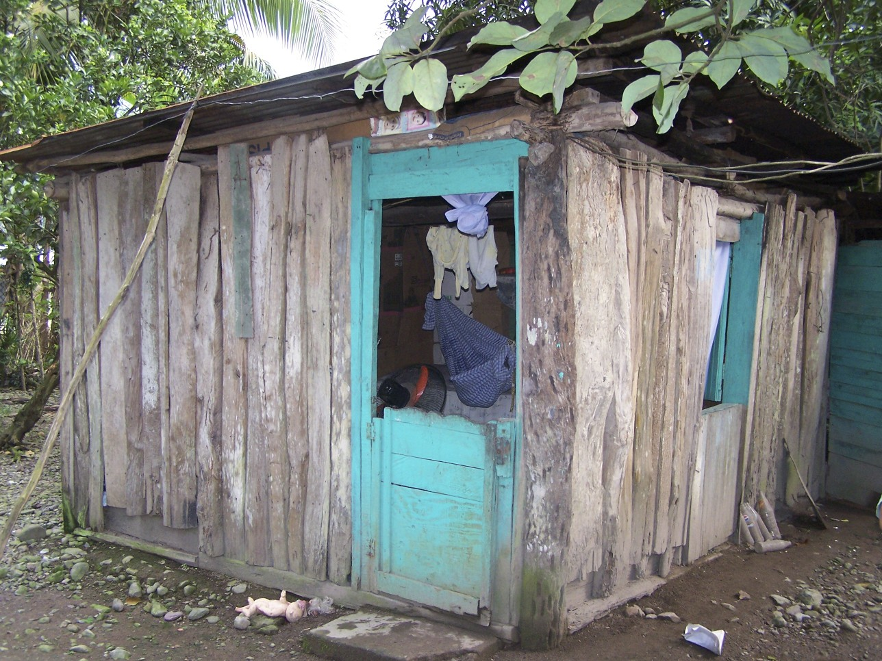 Taken by Mike Pettenigll. This is a home in Armenia Bonito.